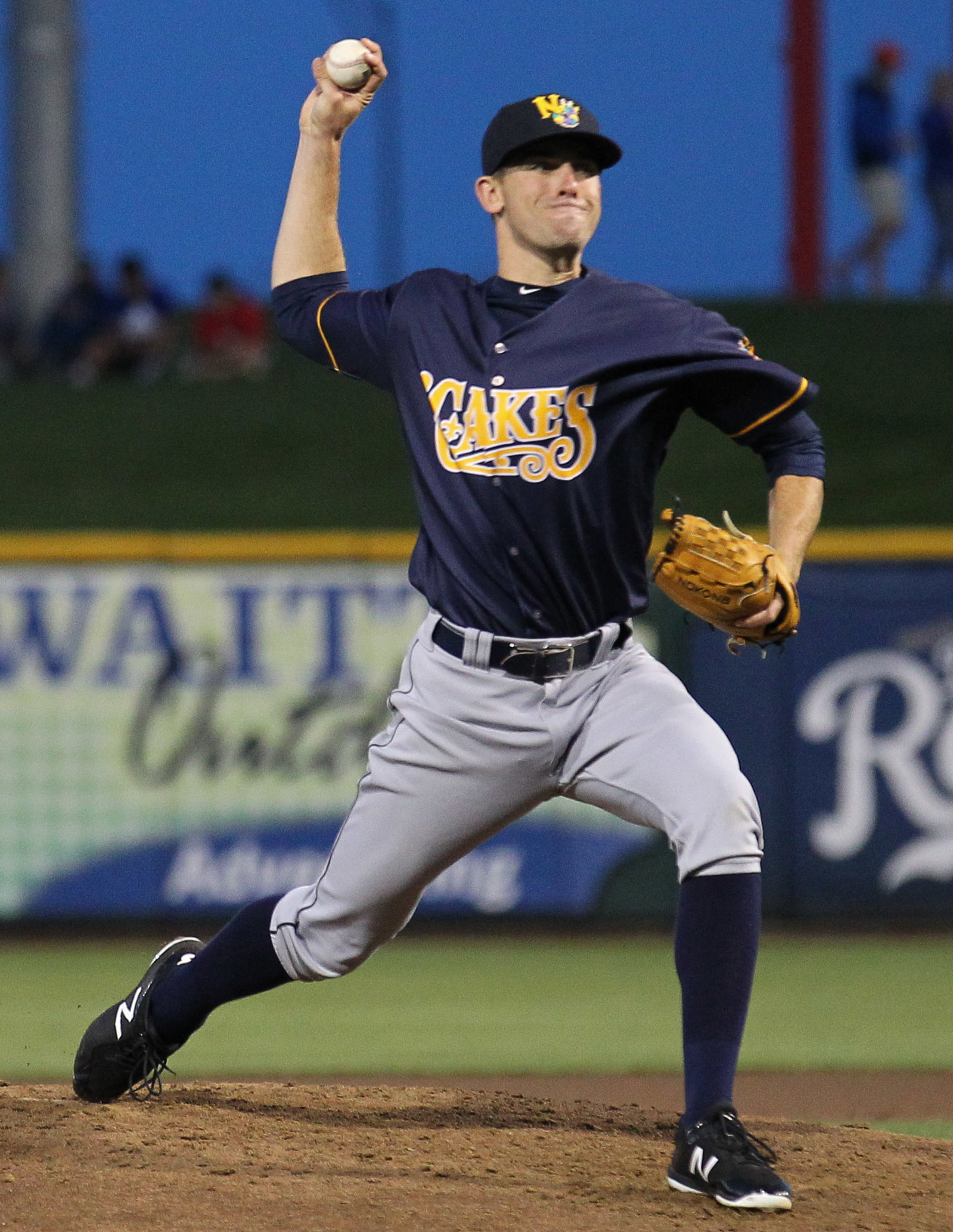 Ben Meyer pitching for the New Orleans Baby Cakes at Werner Park in Omaha in 2018.